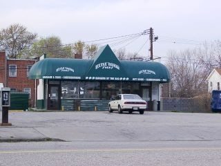 The last Little Tavern shop near Dundalk, MD closed its doors on April 29, 2008.